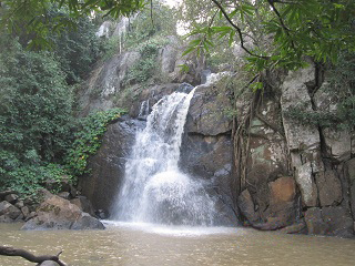 beautifull water fall near Daringbadi